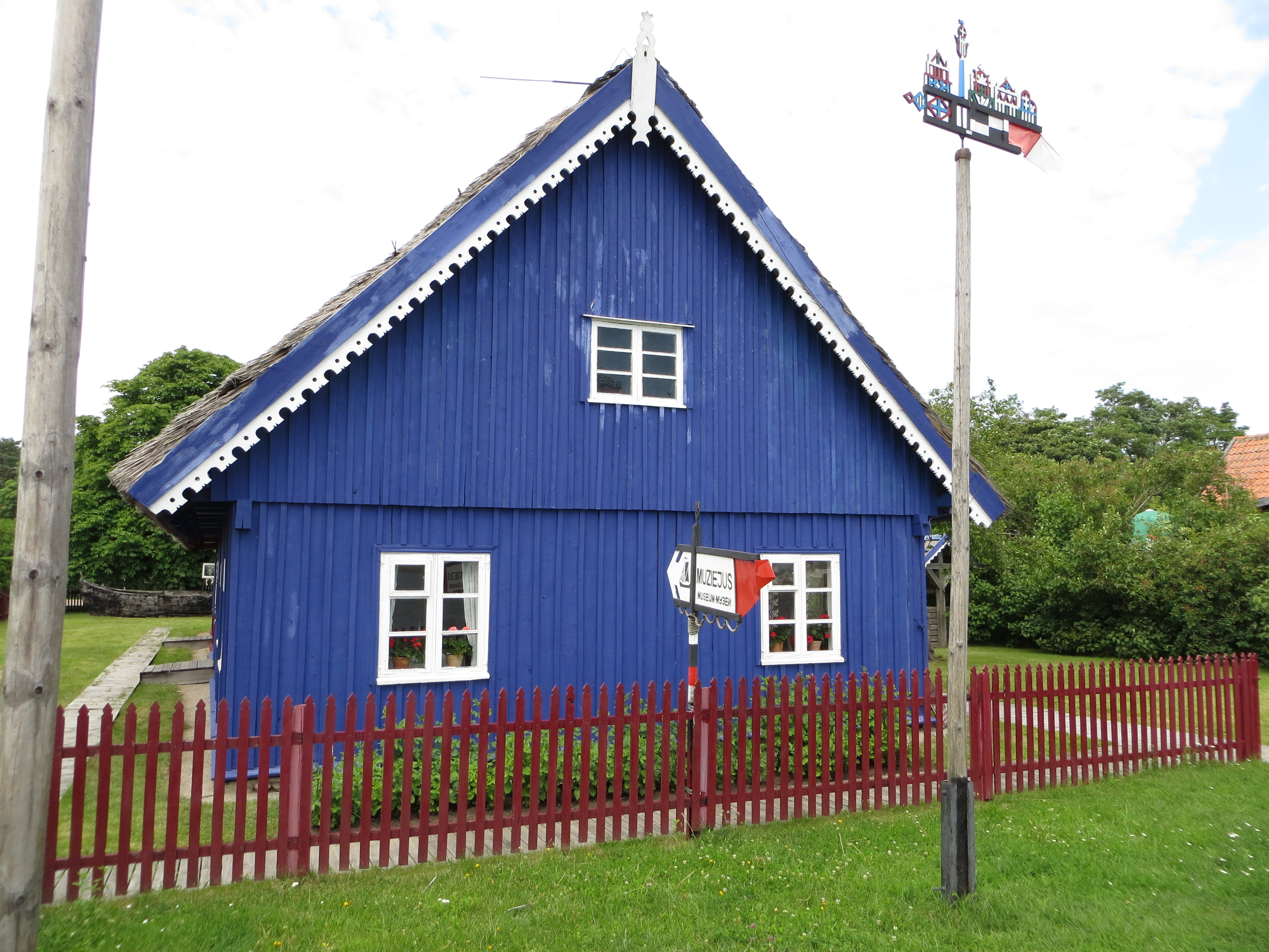 Many of the houses in Nida on the Curonian Spit, such as this one, are very colorful.